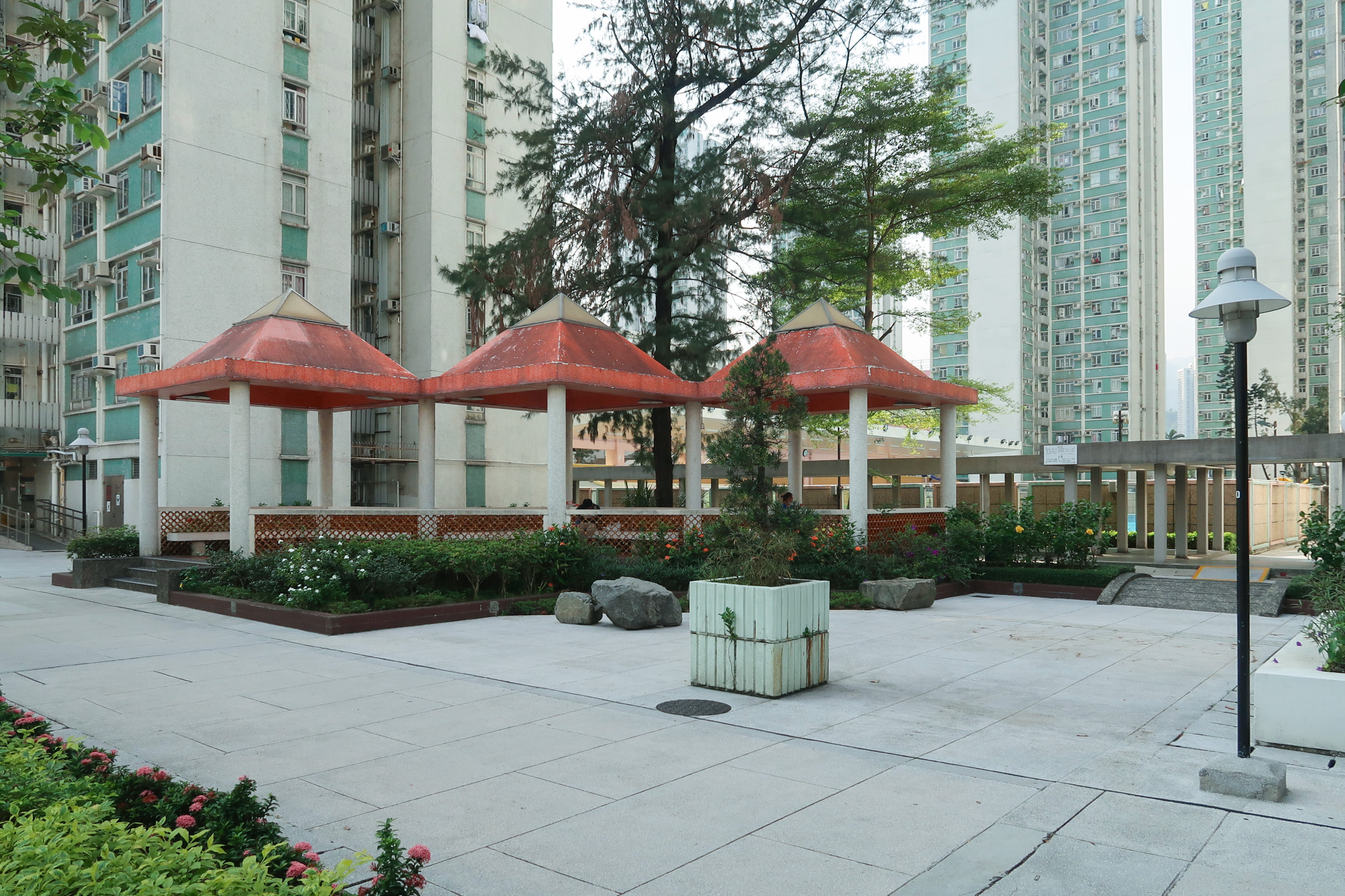 City One Shatin Ex Fountain with pavilion